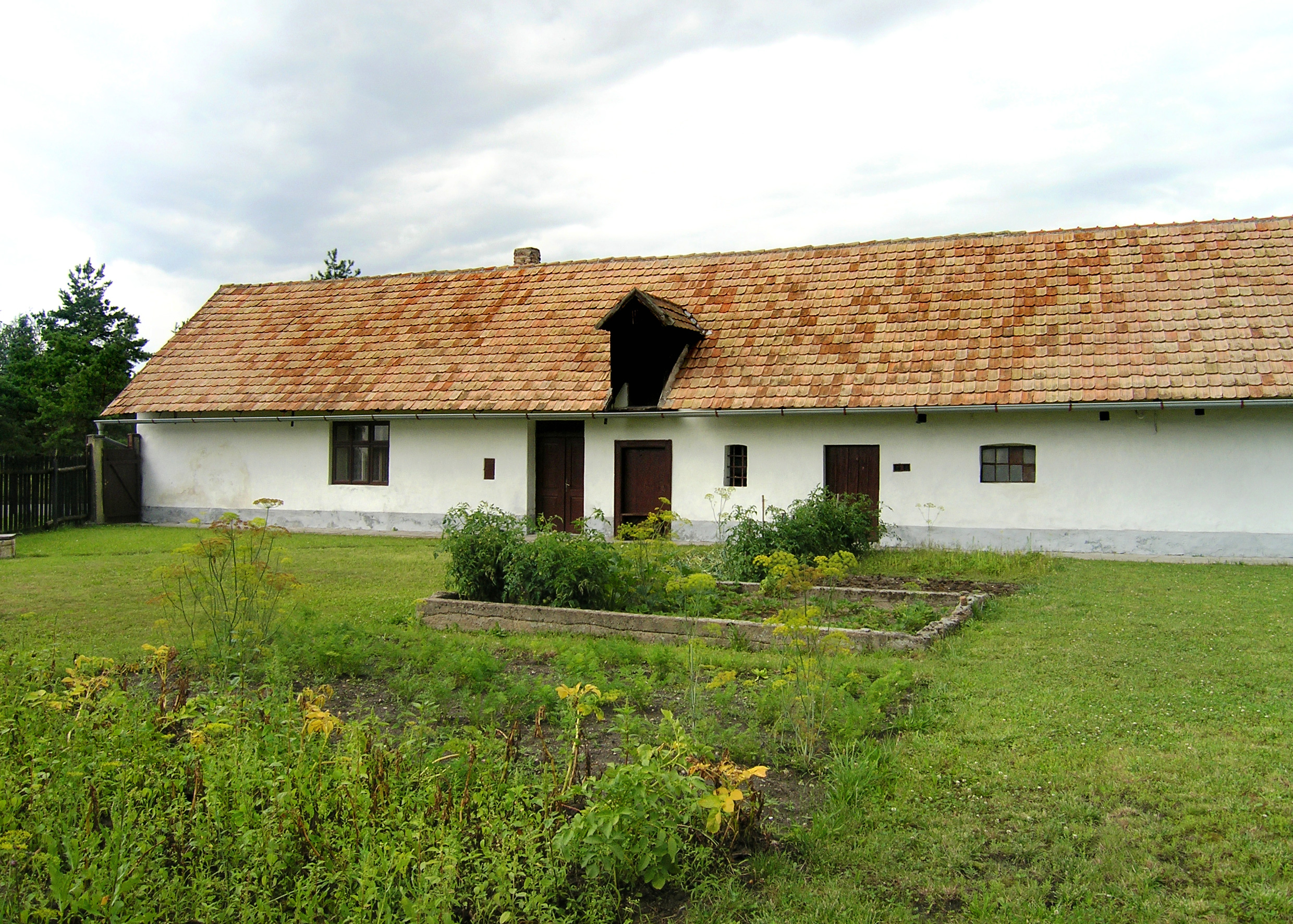 Old house in Volárna, Czech Republic